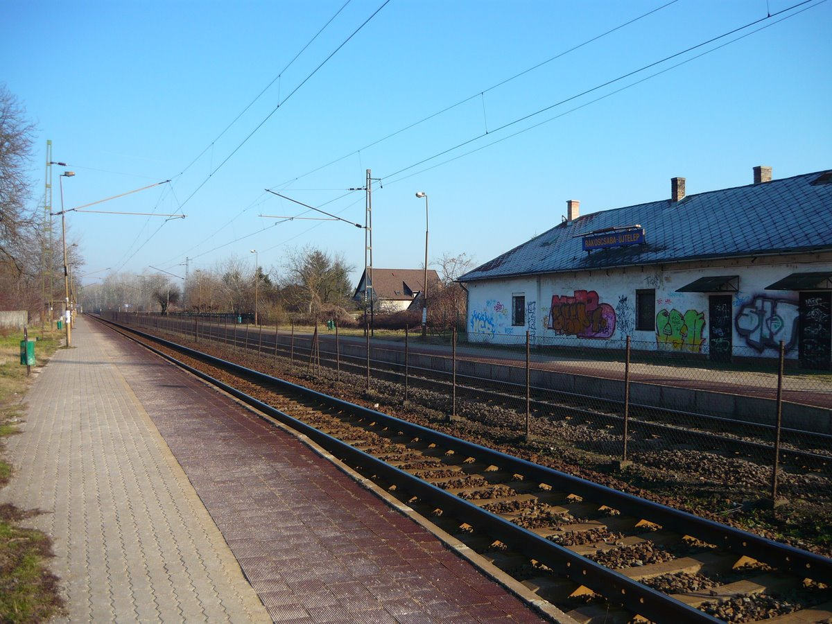 Train station of Rákoscsaba-Újtelep